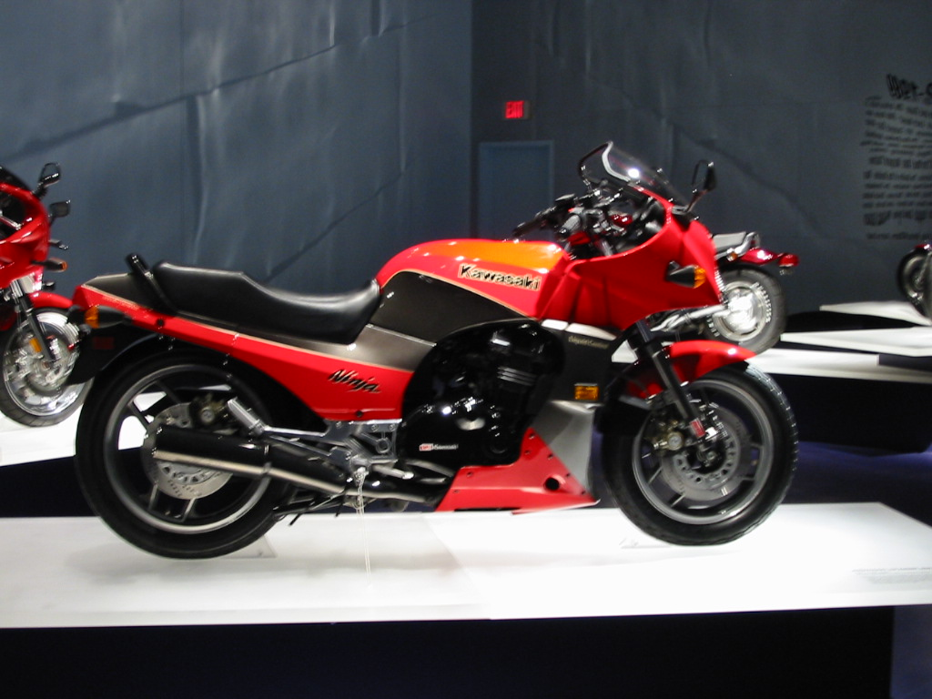 1984 Kawasaki GPz900R. 908 cc, bore x stroke 72.5 x 55 mm, power 115 hp @ 9500 rpm, top speed 151 mph (243 km/h), collection of John Hoover, courtesy of Kawasaki Motors Corp, USA, Irvine, California. The Art of the Motorcycle, Guggenheim Las Vegas.